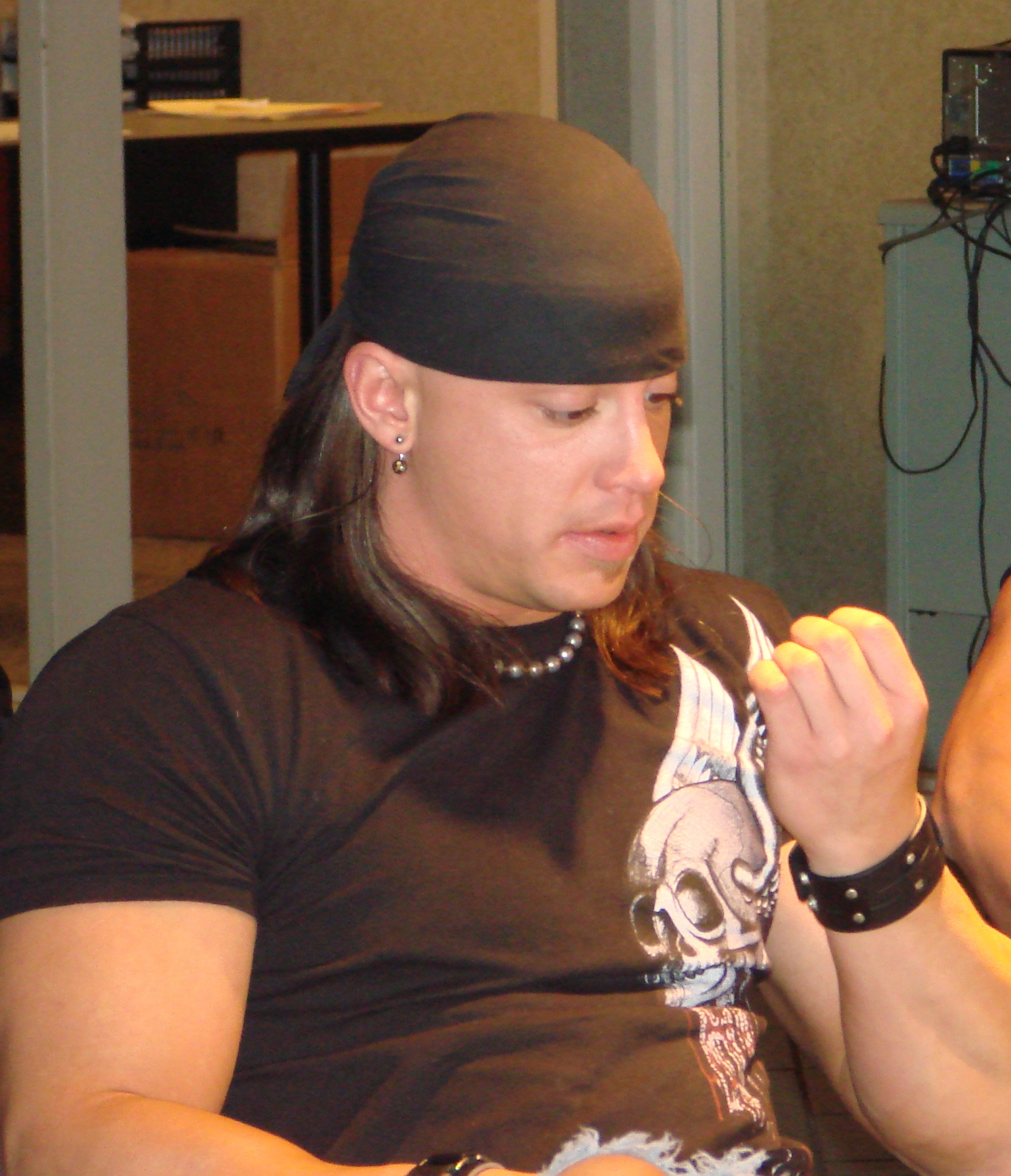 Andy Douglas at an autograph session.